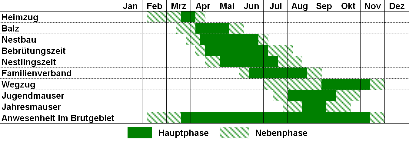 Anual cycle of Black Redstart (Phoenicurus ochruros) for Baden-Württemberg